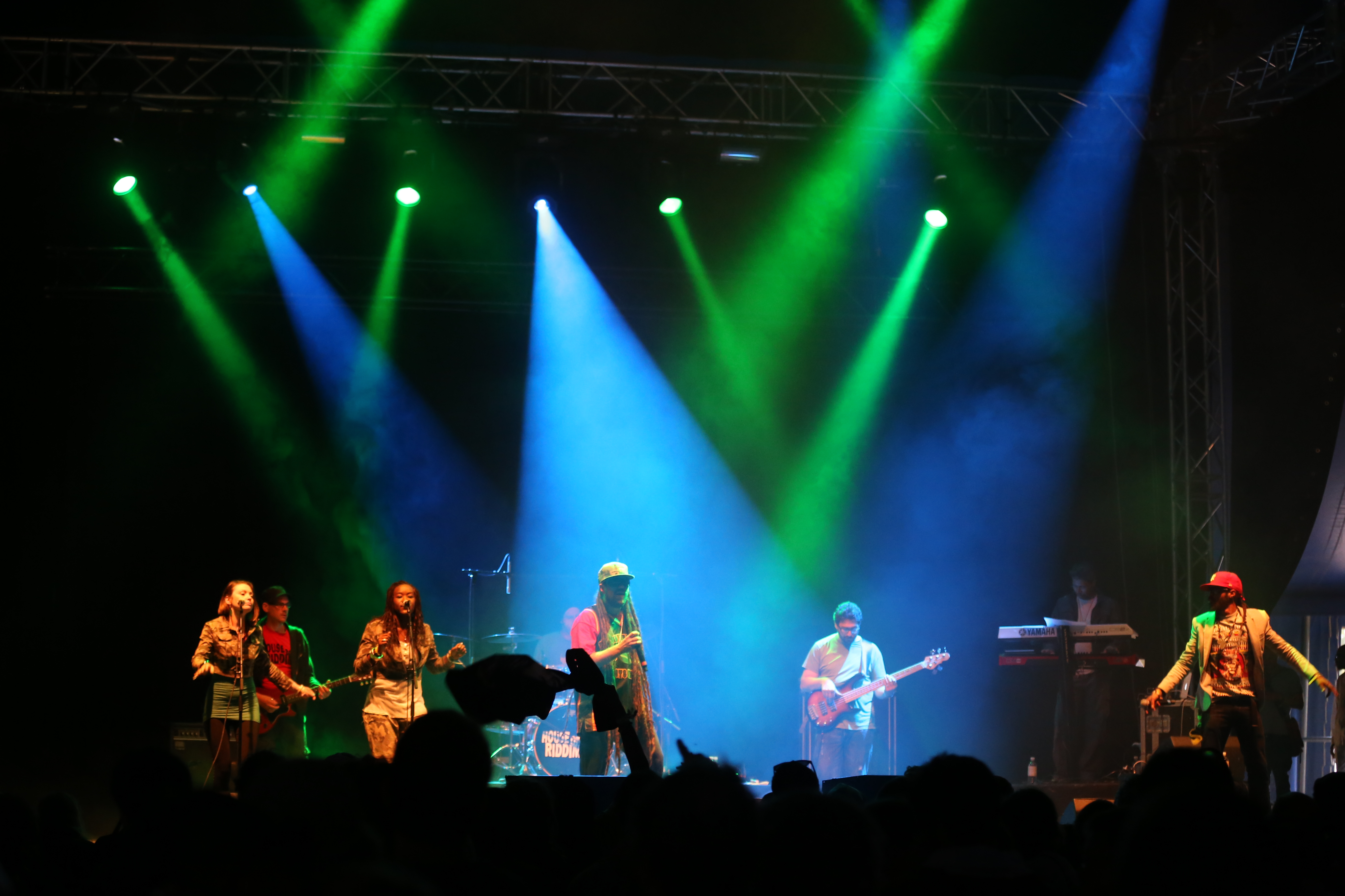 Brigadier Jerry and Jah Sun at Chiemsee Reggae Summer Festival 2013